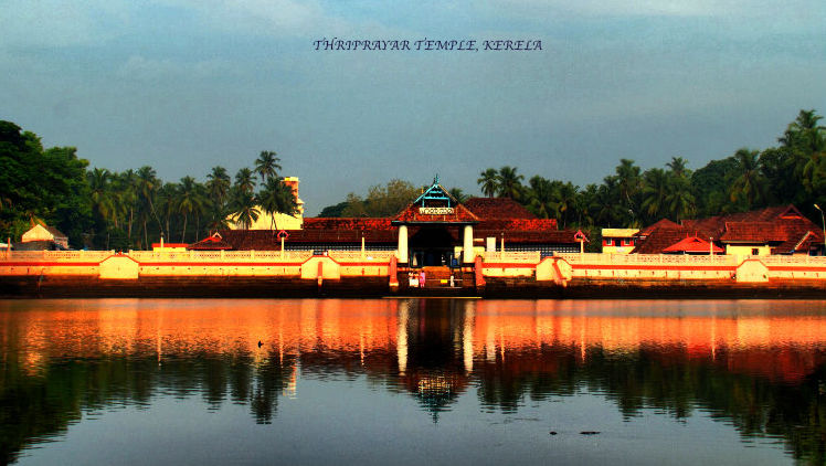 thriprayar temple